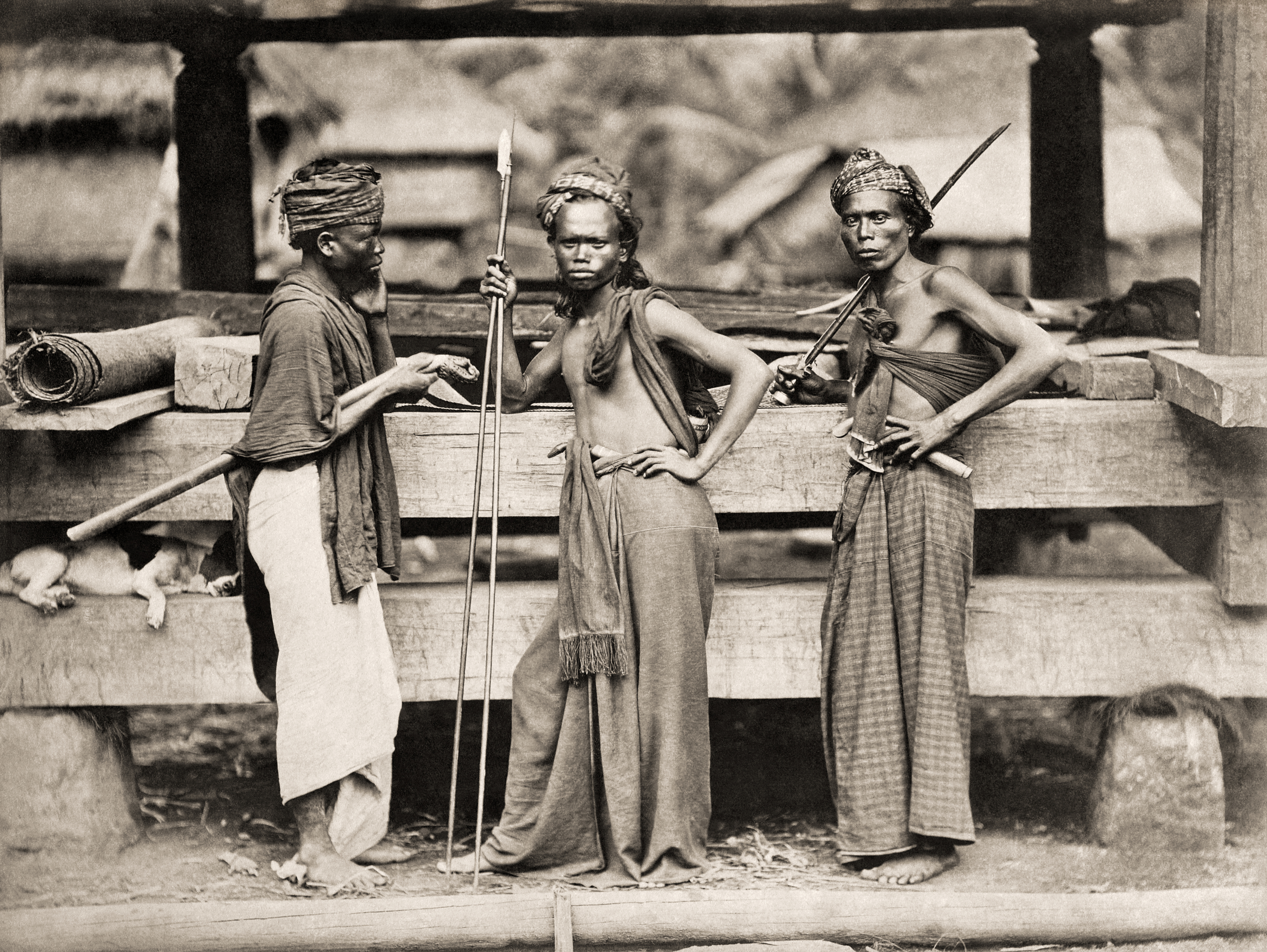 Three Batak warriors with spears and swords in front of a wooden construction. A dog lies between the two girders at the left.